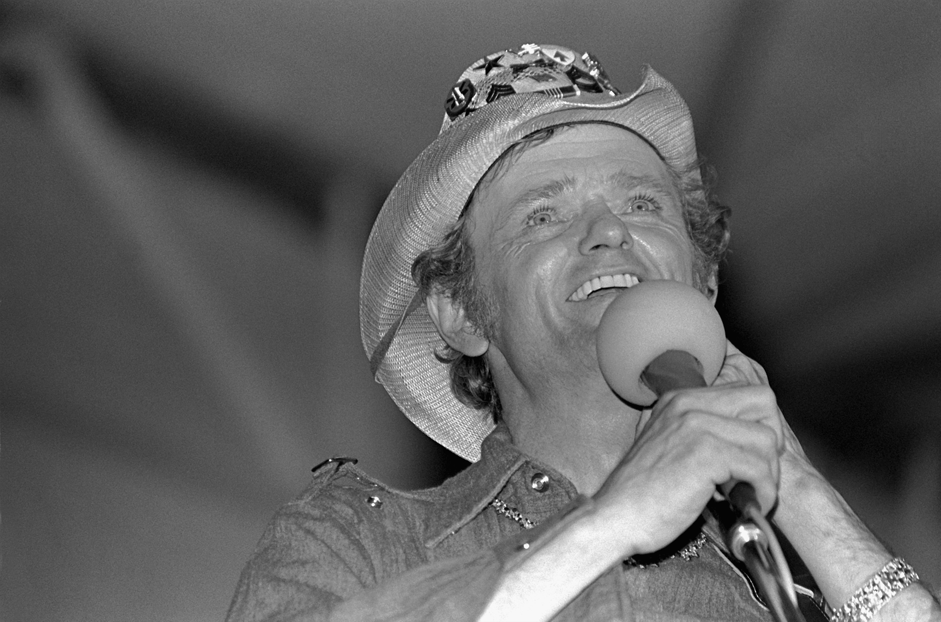 Television, screen and music star, Jerry Reed performs at a concert in Pitt's Memorial Gymnasium or at Rhein-Main Air Base, Germany.